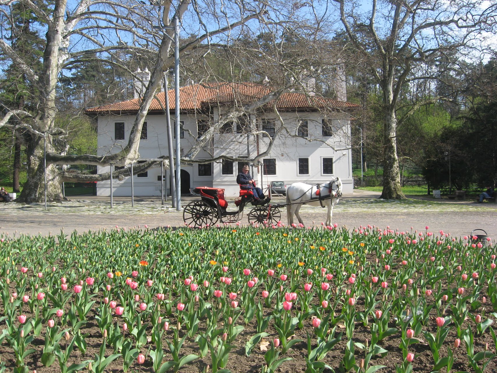 Topčider